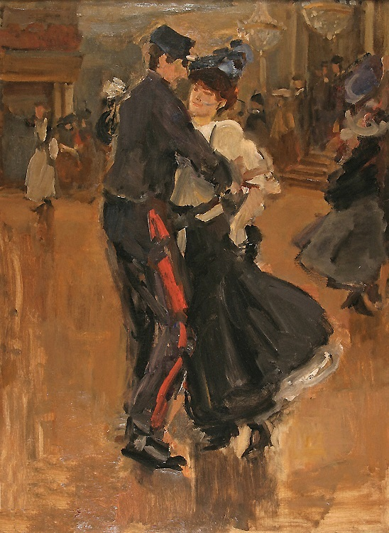 Dancing at the Moulin Galette